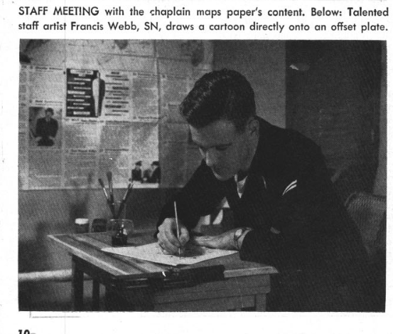 Excerpt from an article in "All Hands, The Bureau of Naval Personnel Information Bulletin", June 1952, concerning the production of newsletters aboard US Naval Vessels.